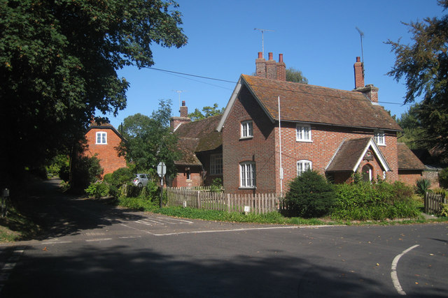 House at Westwell. Sitting on a 90° bend facing the 1502072